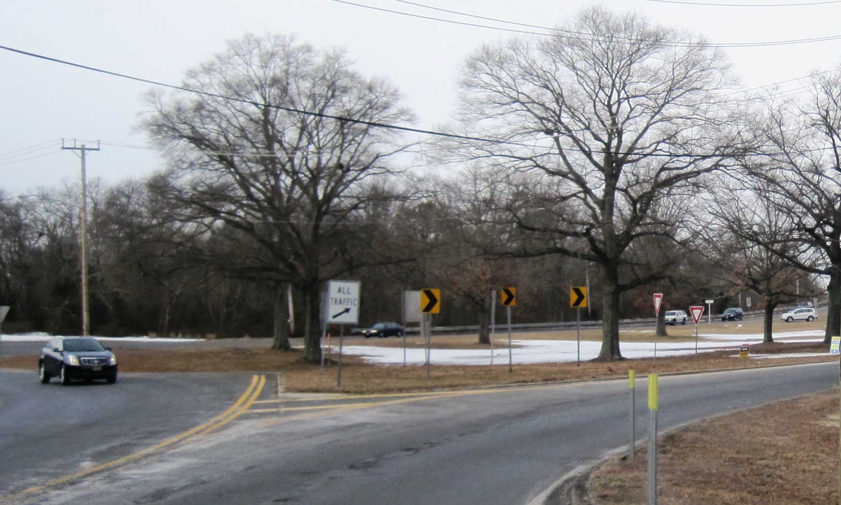 Photo of the Lakehurst Circle, the junction of Routes 37 and 70 in Lakehurst, New Jersey. Photo taken entering circle from westbound Route 70.